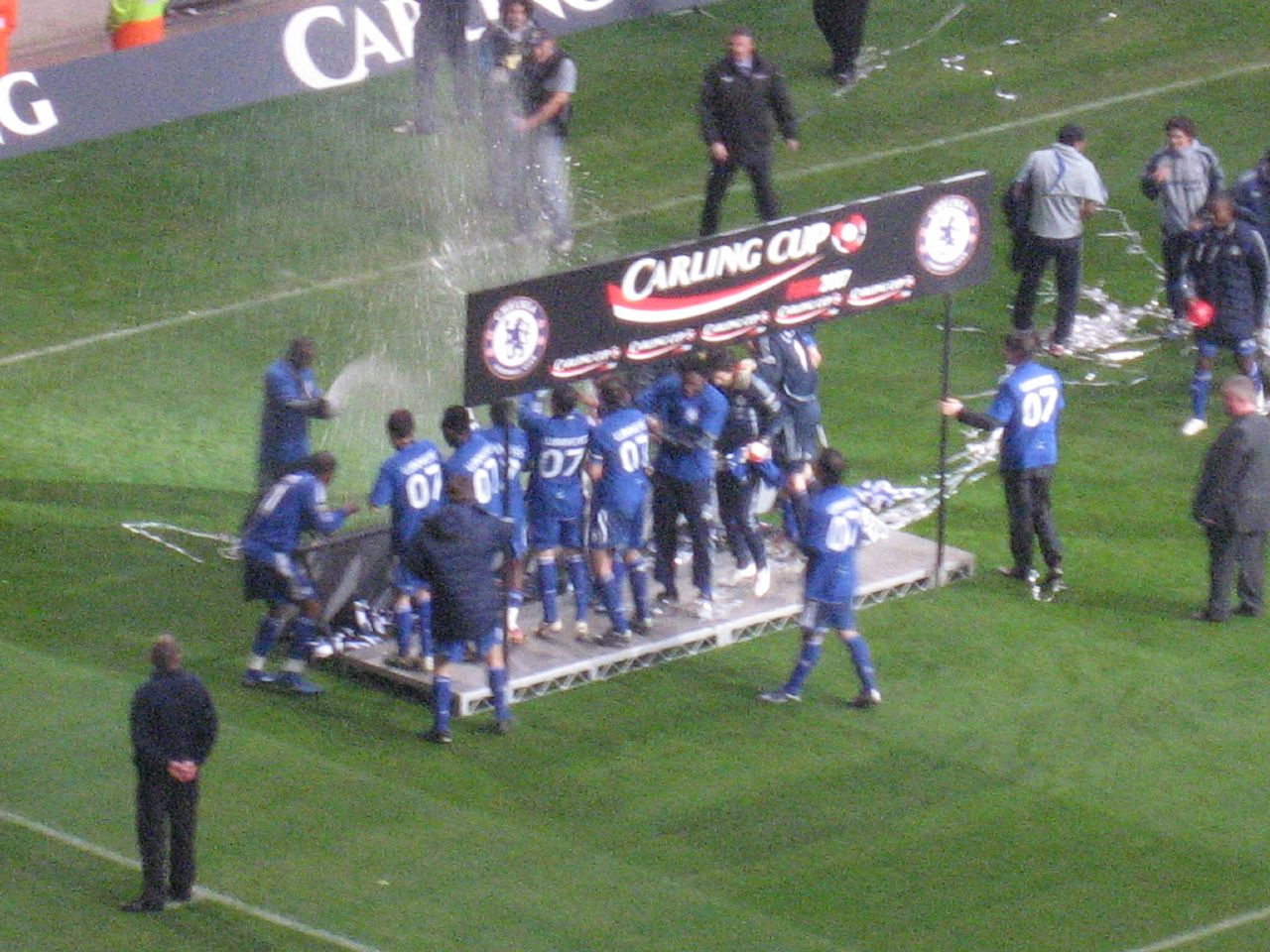 Chelsea celebrate winning the 2007 Carling Cup Final.